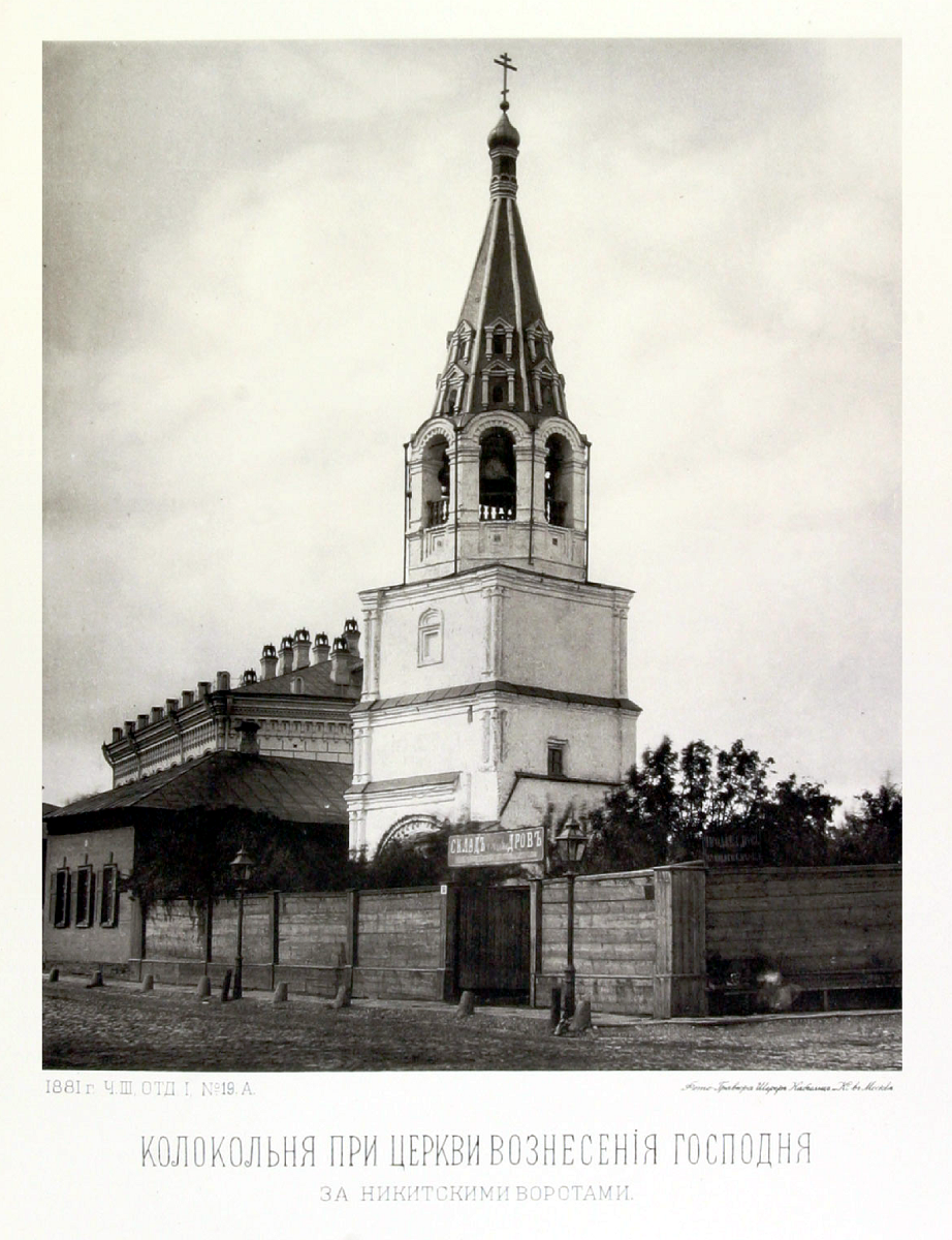 Belltower of the Greater Ascension church, Moscow.